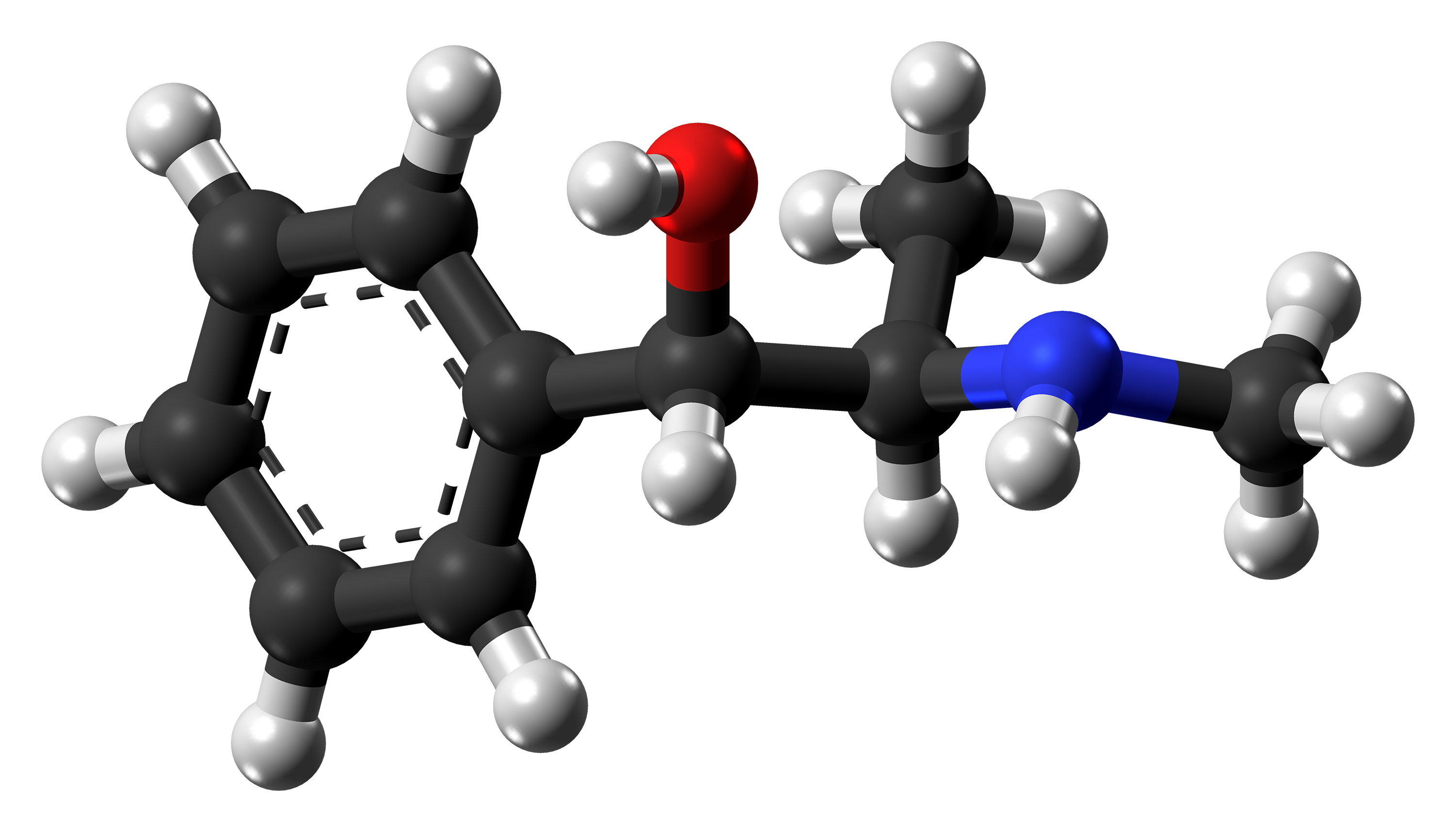 Ball-and-stick model of the ephedrine molecule, a sympathomimetic drug. This image shows the (1S,2R)-isomer. Based on the crystal structure of ephedrine acetate, as determined by X-ray diffraction. Color code: Carbon, C: black Hydrogen, H: white Oxygen, O: red Nitrogen, N: blue